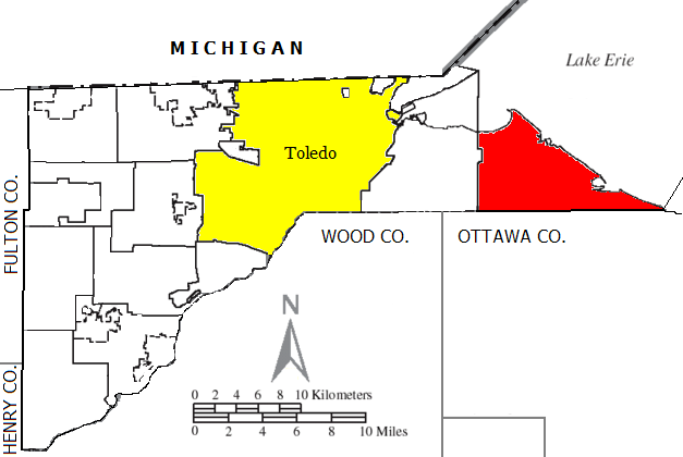 Made by the US Census and modified by myself